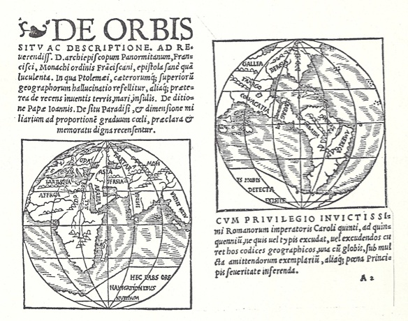 Illustration by Monachus in De Orbis Situ ac descriptione (1527) showing two hemispheres of the globe that he had created. See Franciscus Monachus for details.